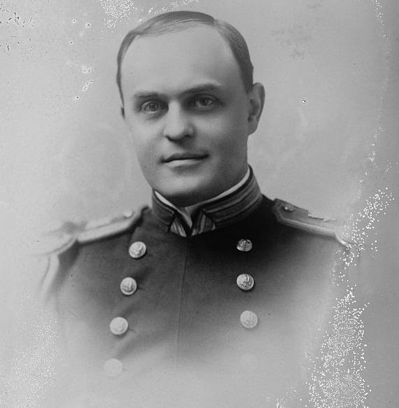 Rear Adml. Samuel McGowan